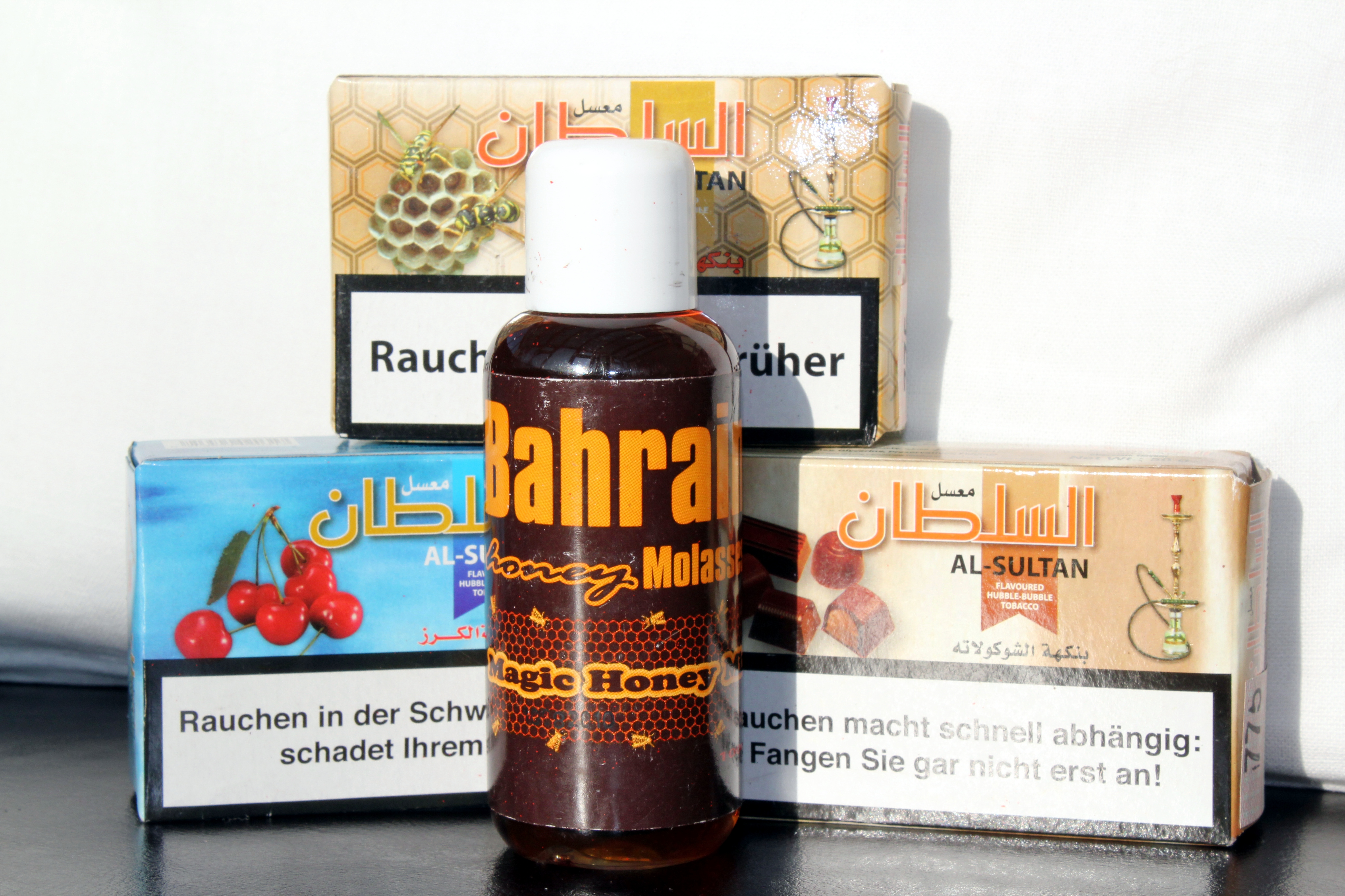 3 kinds of Al Sultan Shisha tobacco (Cherry, Honey and Chocolade) and Bahrain Honey Molass